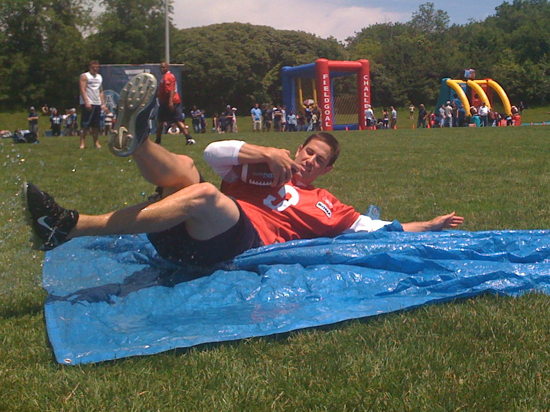 Toronto Argonauts quarterback Cody Pickett demonstrates a quarterback slide during a training camp fan day, 14 June 2009